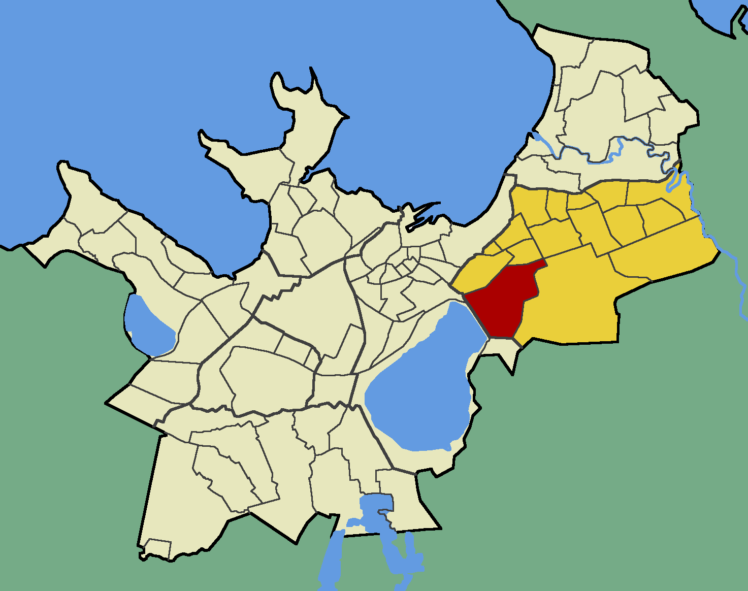 Map of Tallinn (Estonia) with borders of the quarters, Lasnamäe district and Ülemiste quarter emphasised